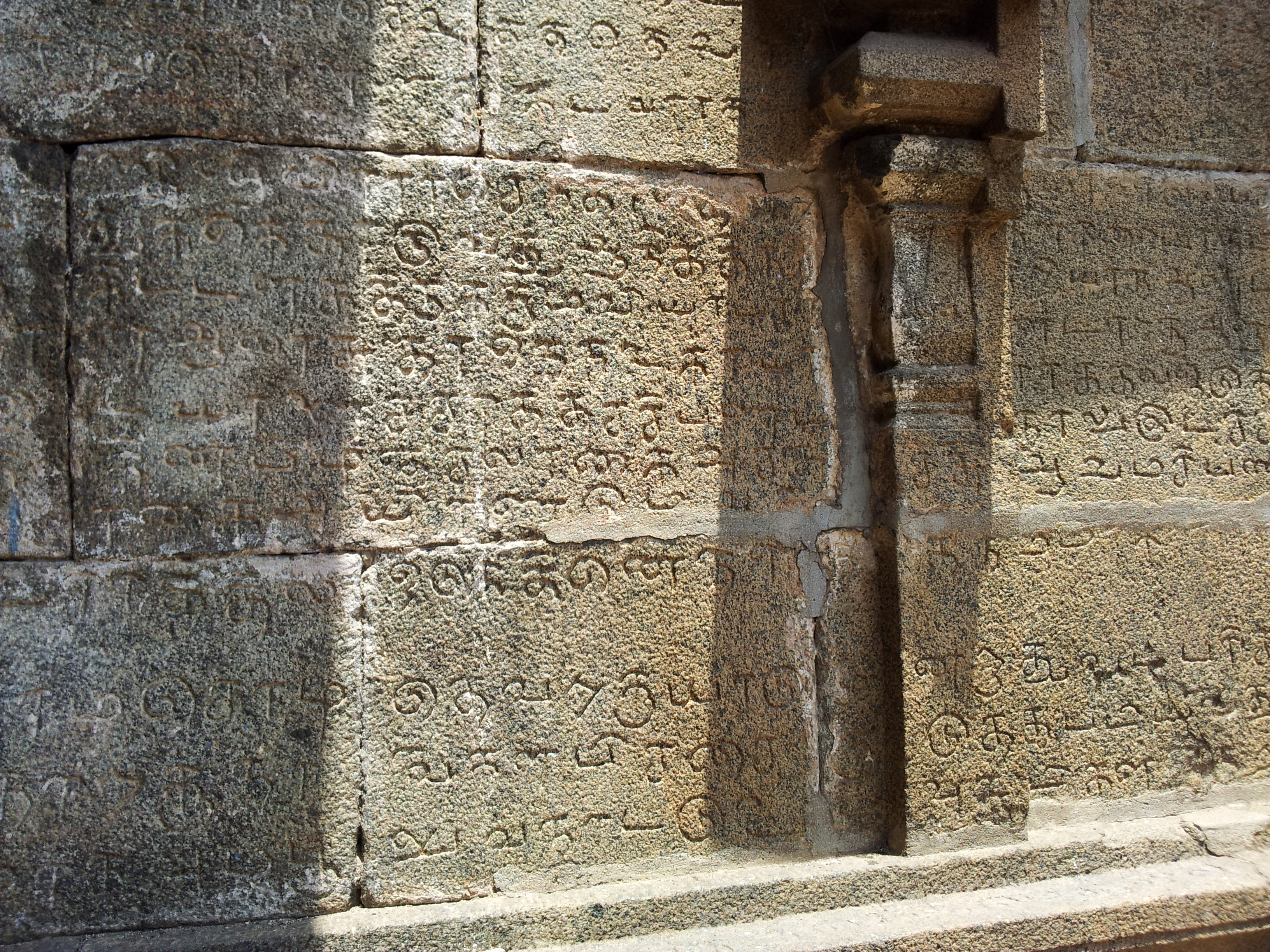 Muruganathasvami Temple